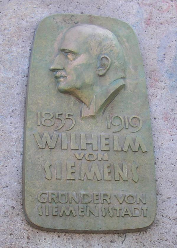 Memorial plaque for Wilhelm von Siemens in Berlin-Siemensstadt, Germany